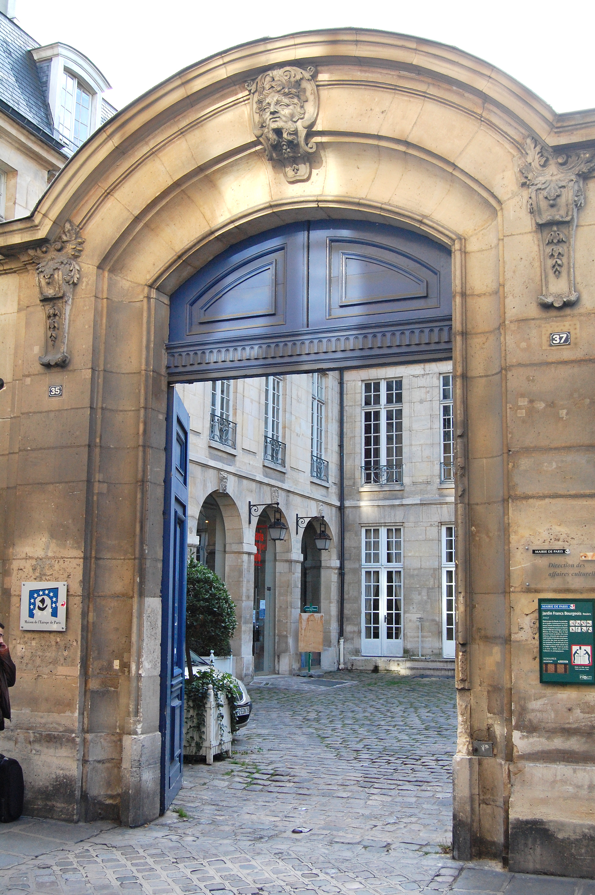 Hotel de Coulanges, Le Marais, Paris, France